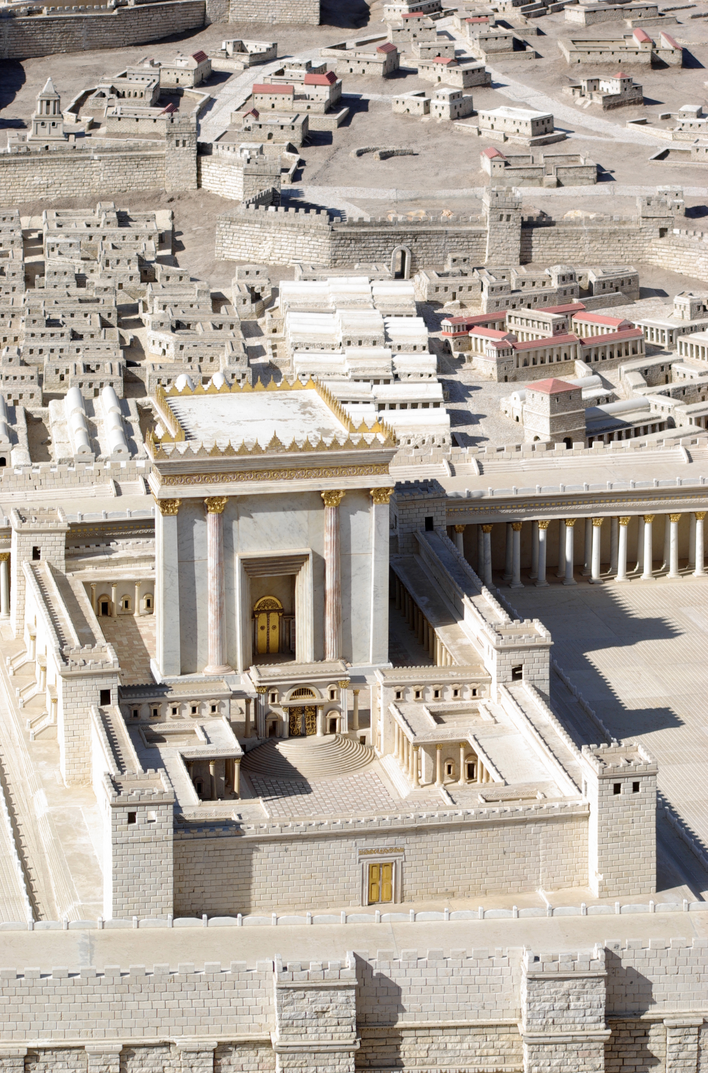 junk